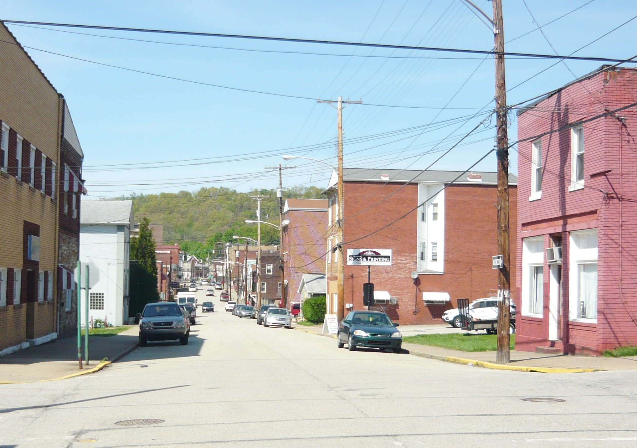 Business district of Trafford, Pennsylvania. Looking northward on Cavitt Avenue from Third Street.